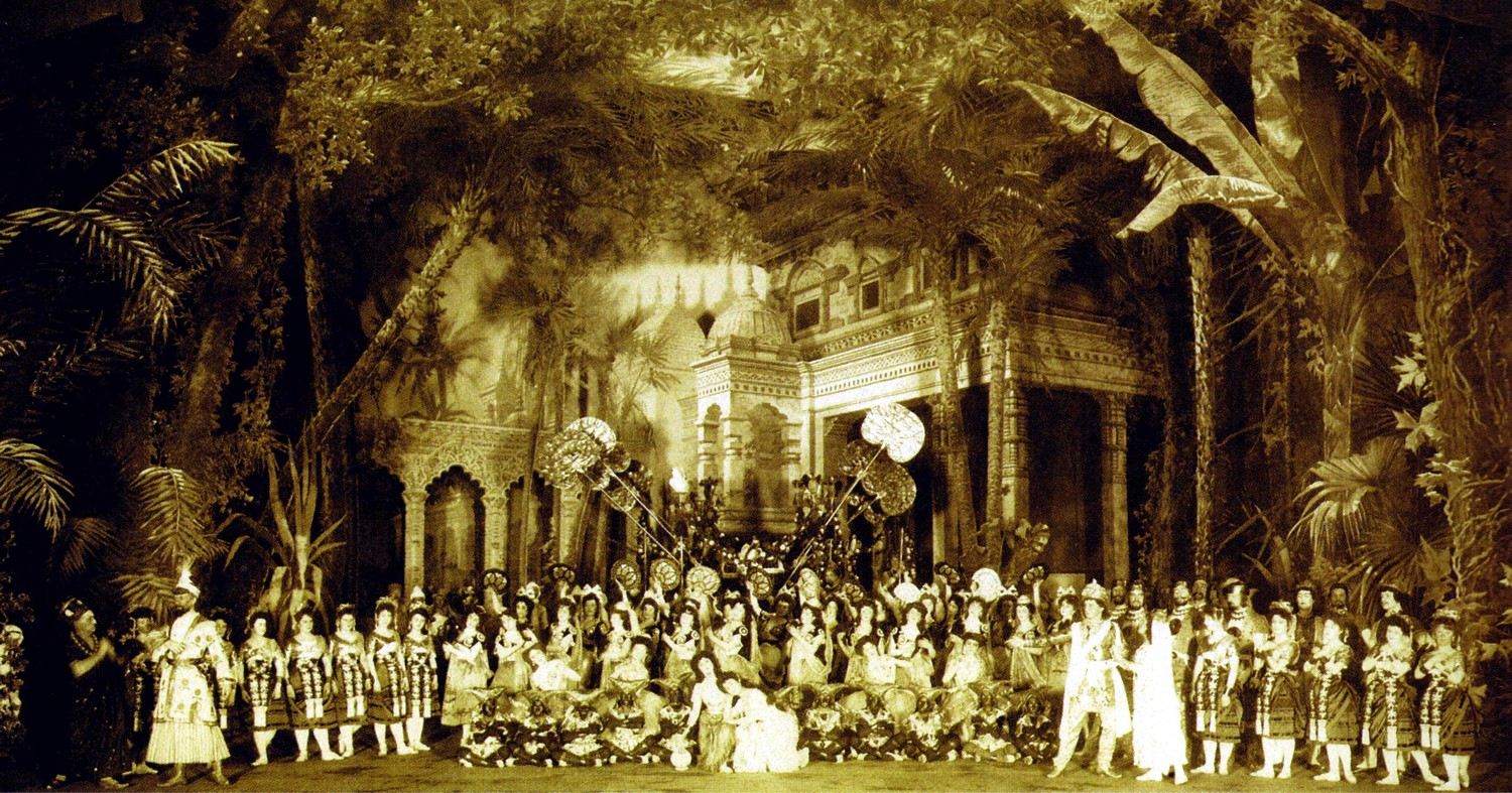 Photo of the stage and cast of the Imperial Mariinsky Theatre dressed in designer Orest Allegri's décor for Act II of the choreographer Marius Petipa (1818-1910) & the composer Ludwig Minkus's (1828-1917) ballet "La Bayadère". In the center can be seen the Mathilde Kschessinskaya (1871-1970) in the principal role of Nikiya.